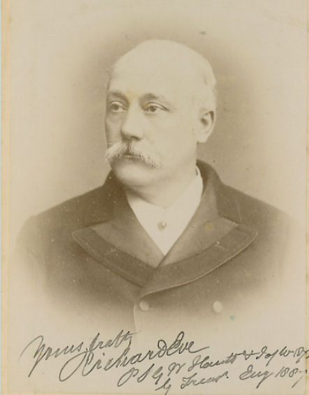 Photograph of Richard Eve (1831–1900)